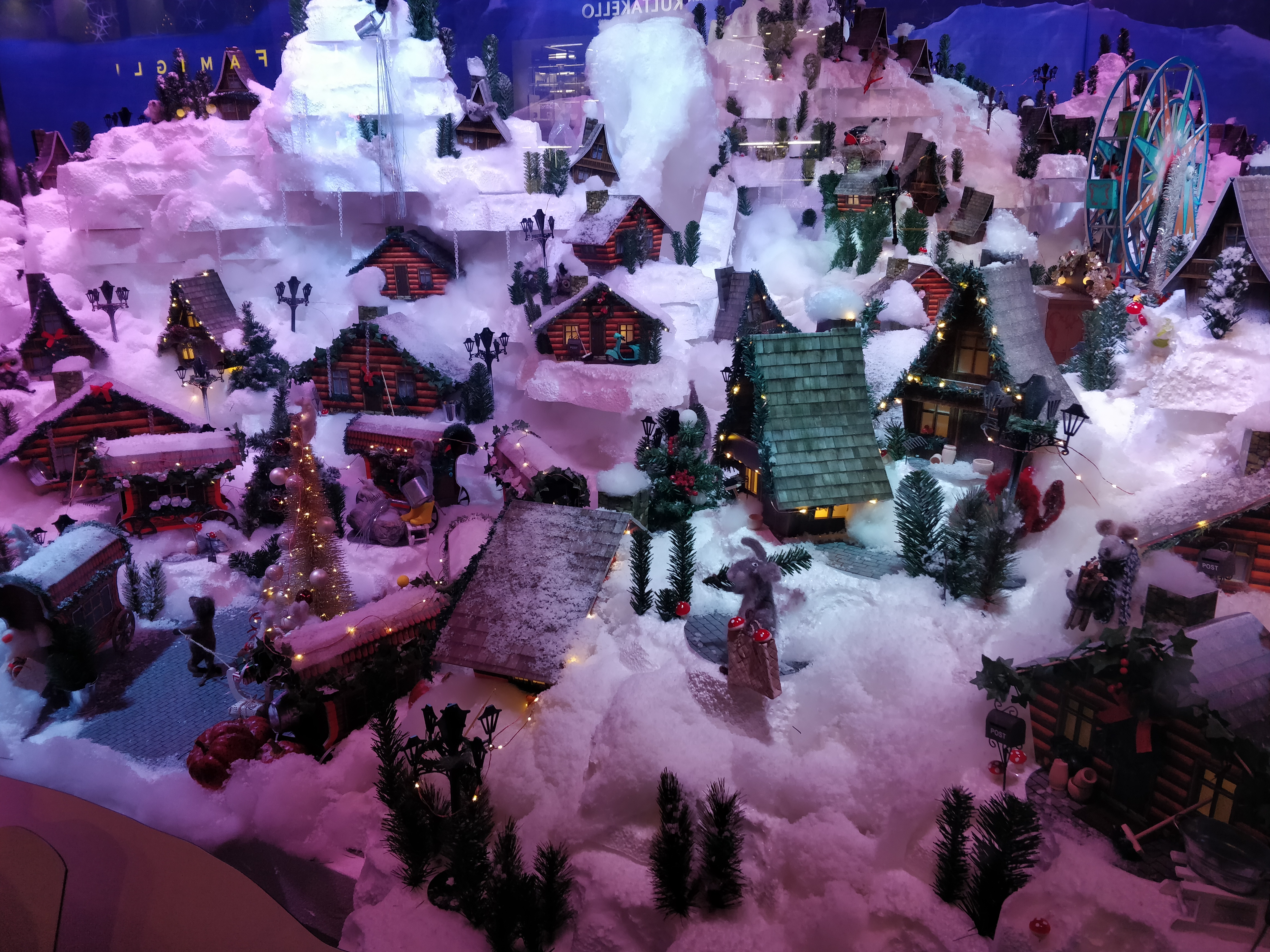 Store window Stockmann in Helsinki City during Christmas 2018